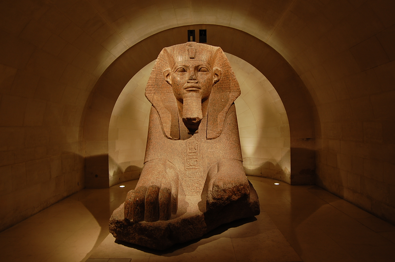 Great sphinx bearing the names of Amenemhat II (12th Dynasty), Merneptah (19th Dynasty) and Shoshenq I (22nd Dynasty).